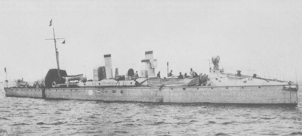 Japanese torpedo boat No.42, at Kobe (inferred).